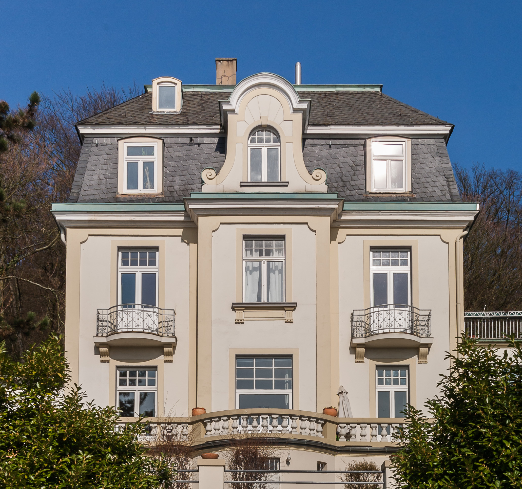 Heritage protected villa Haus Felseck, Am Domstein 9, Königswinter